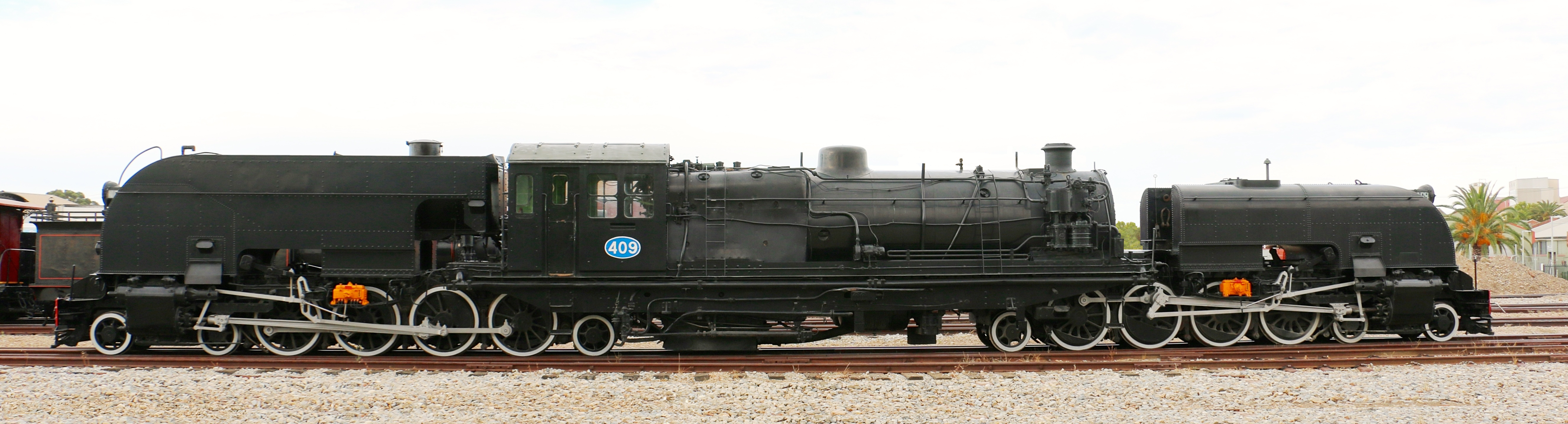 Side view of preserved South Australian Railways 400 class Beyer-Garratt loco 409 being shunted at the National Railway Museum, Port Adelaide. The Wikipedia article about this class of steam locomotive is South Australian Railways 400 class; the article titled Garratt is also relevant.